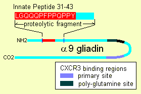 Illustration shows two non-adaptive modifiers of the immune response to gluten. The innate peptide show stimulates monocytes and promotes production of IL15, even in healthy individuals. The CXCR3 sites appear to facilitate the opening up of tight junctions, allowing gluten peptides into the lamina propria.